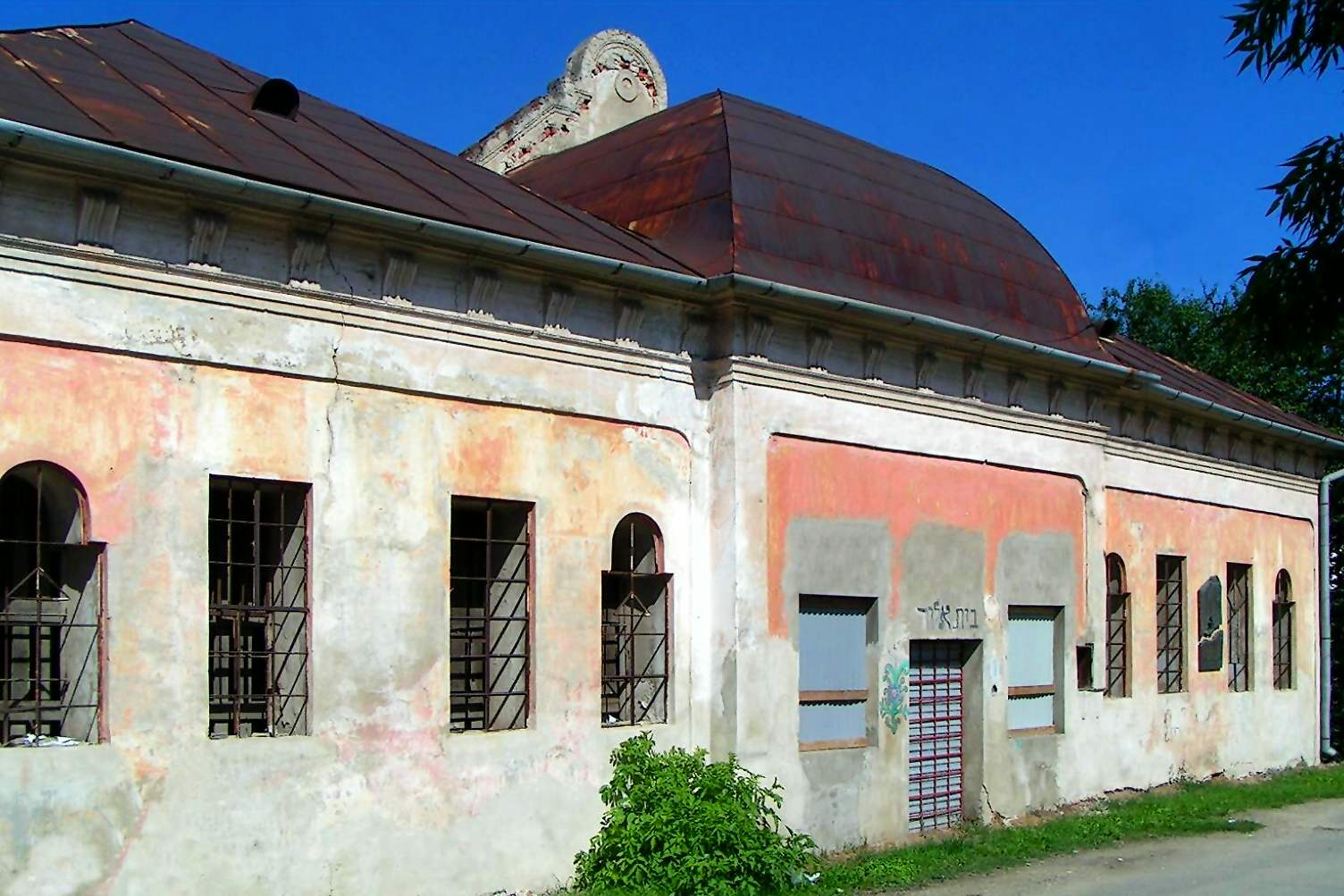 Bardejov, Jewish suburbium - Chevra Bikur Cholim Synagogue (non-functional)